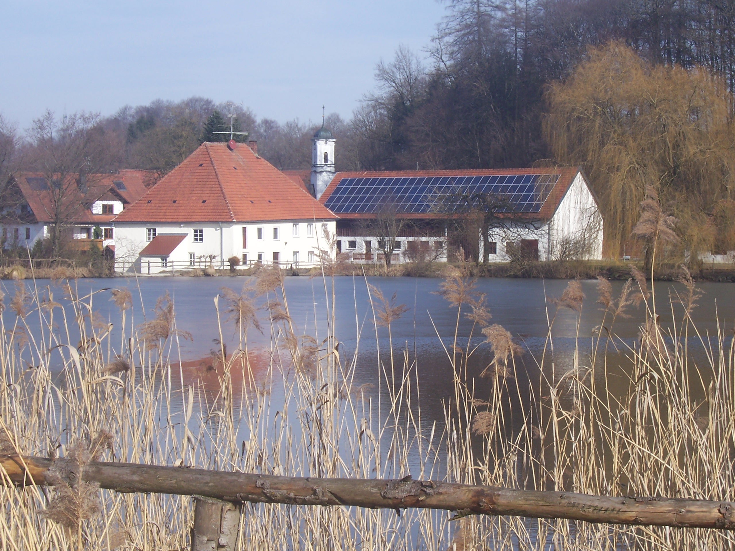 Mühlenweiher